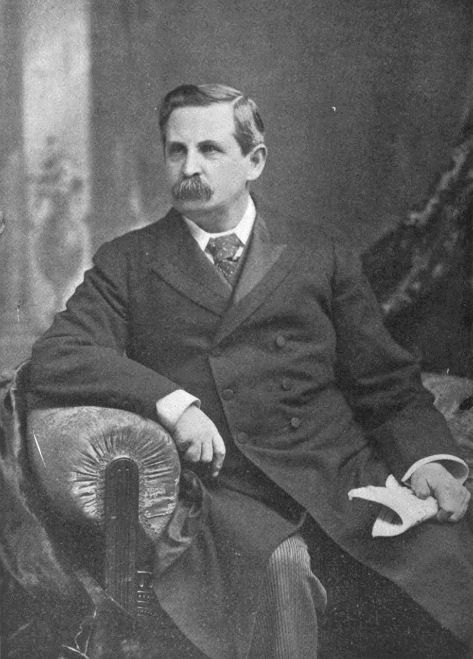 Henry Austin Dobson